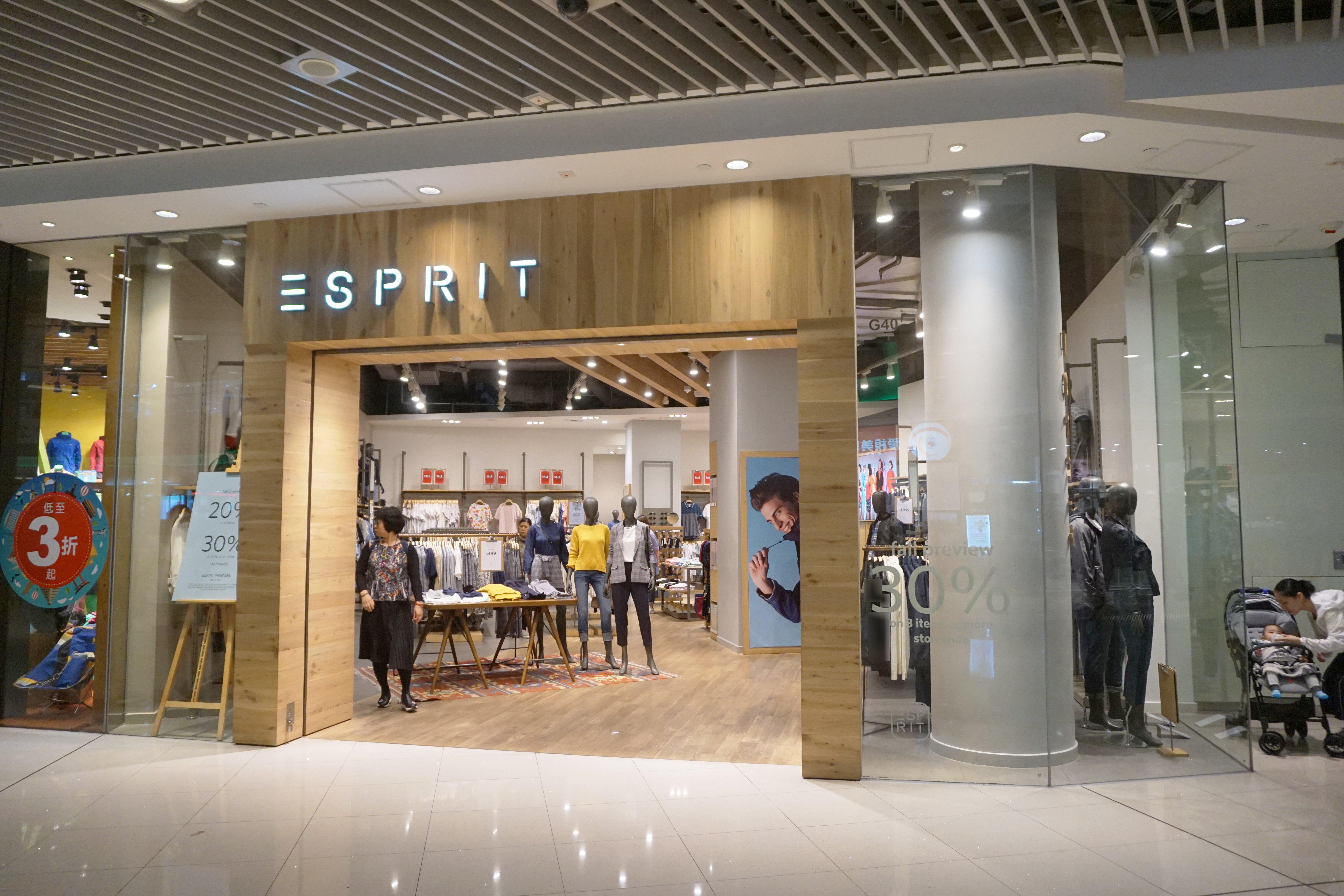 Esprit in Yau Tong, Hong Kong.